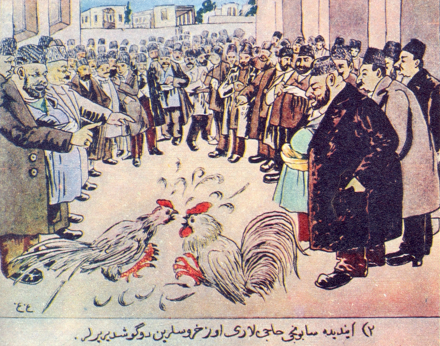 Cock-fighting. 1915